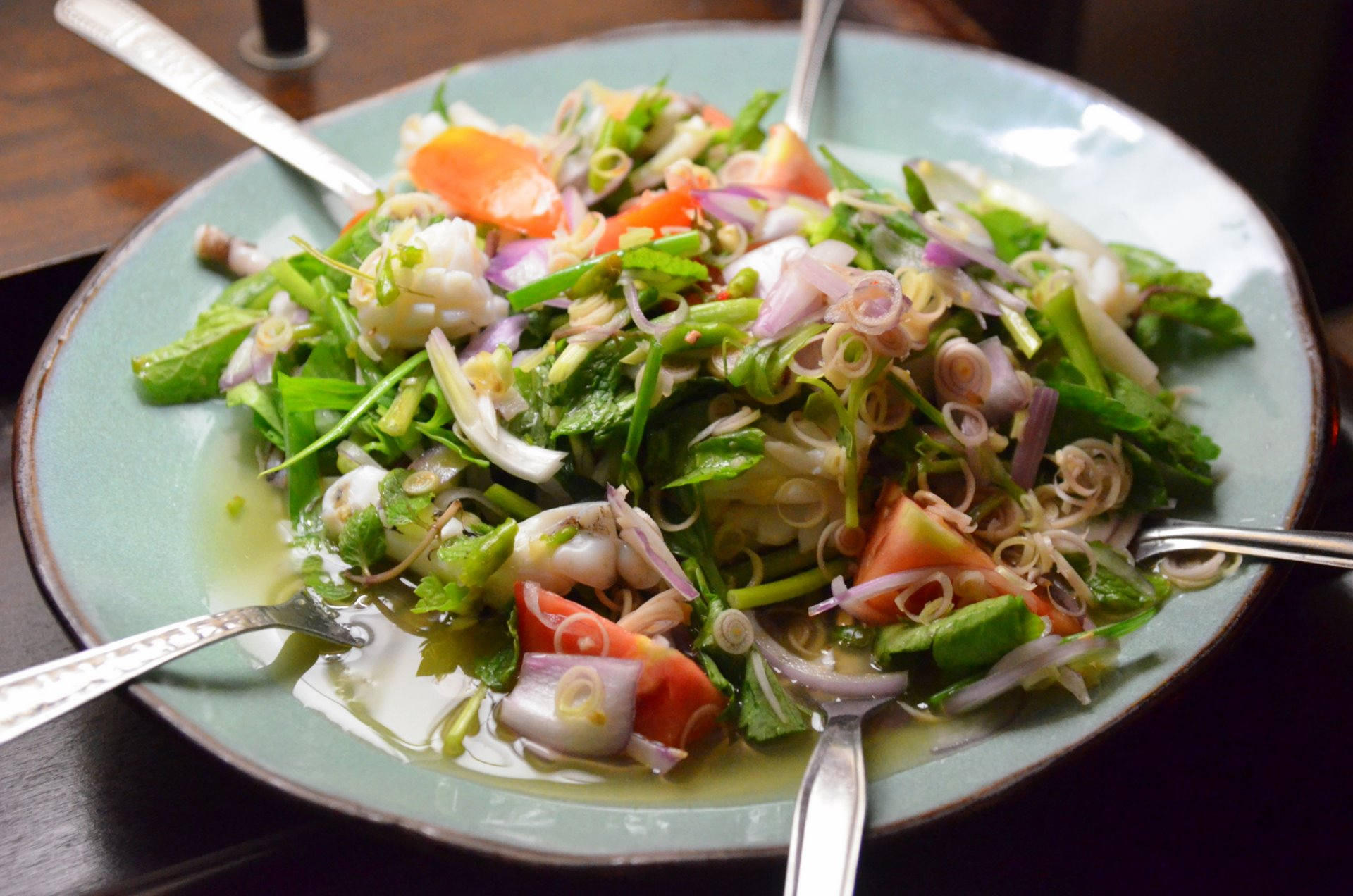 Yam thale (Thai script: ยำทะเล): a spicy mixed seafood yam style Thai salad. This particular version was a bit more elaborate with the herbs, having thinly sliced lemongrass, Thai mint and spring onions in addition to the basic yam ingredients which consist of Chinese celery, shallots/onions, tomato, fish sauce, sugar and lime juice.